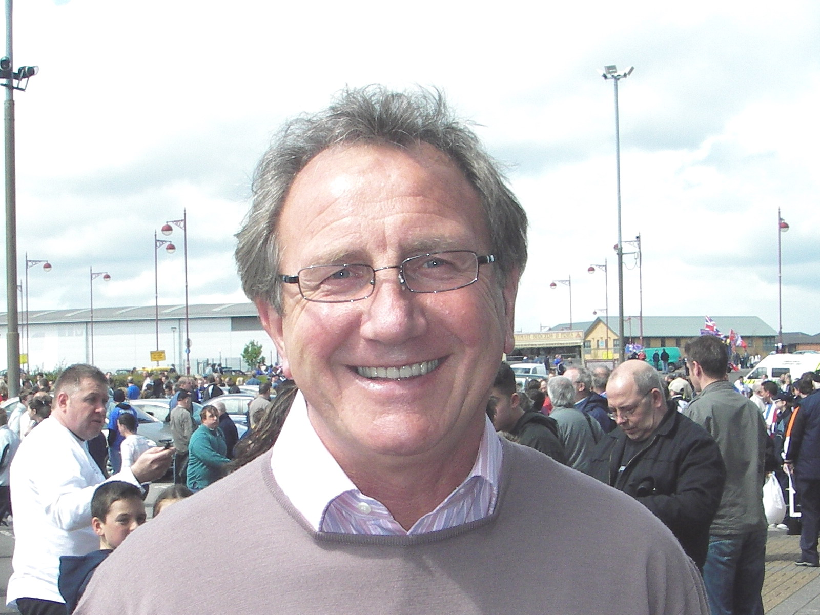 Roy McFarland, former english footballer.